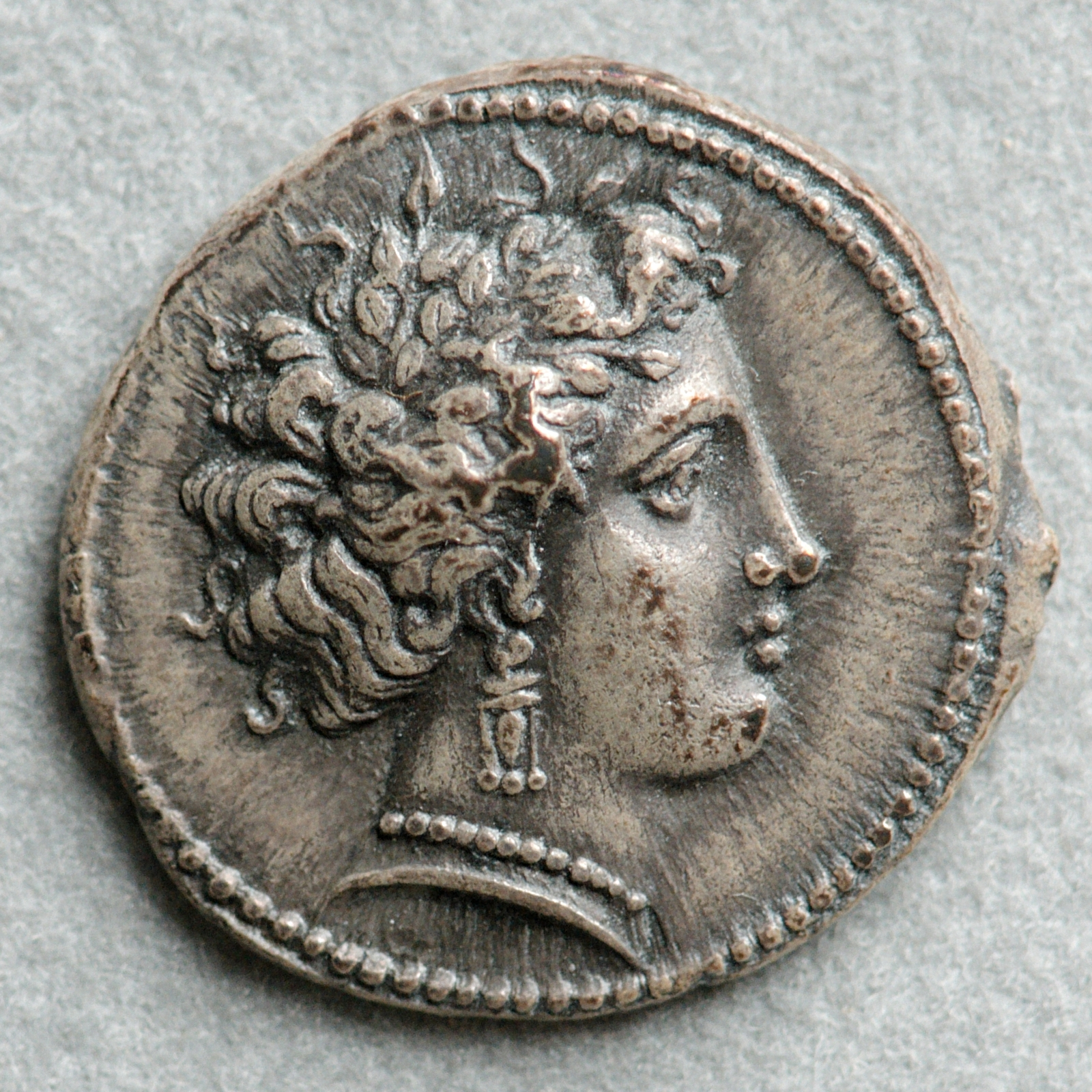 Silver drachm (so-called heavy drachm) of Massilia, ca. 390–220 BC, obverse: head right.